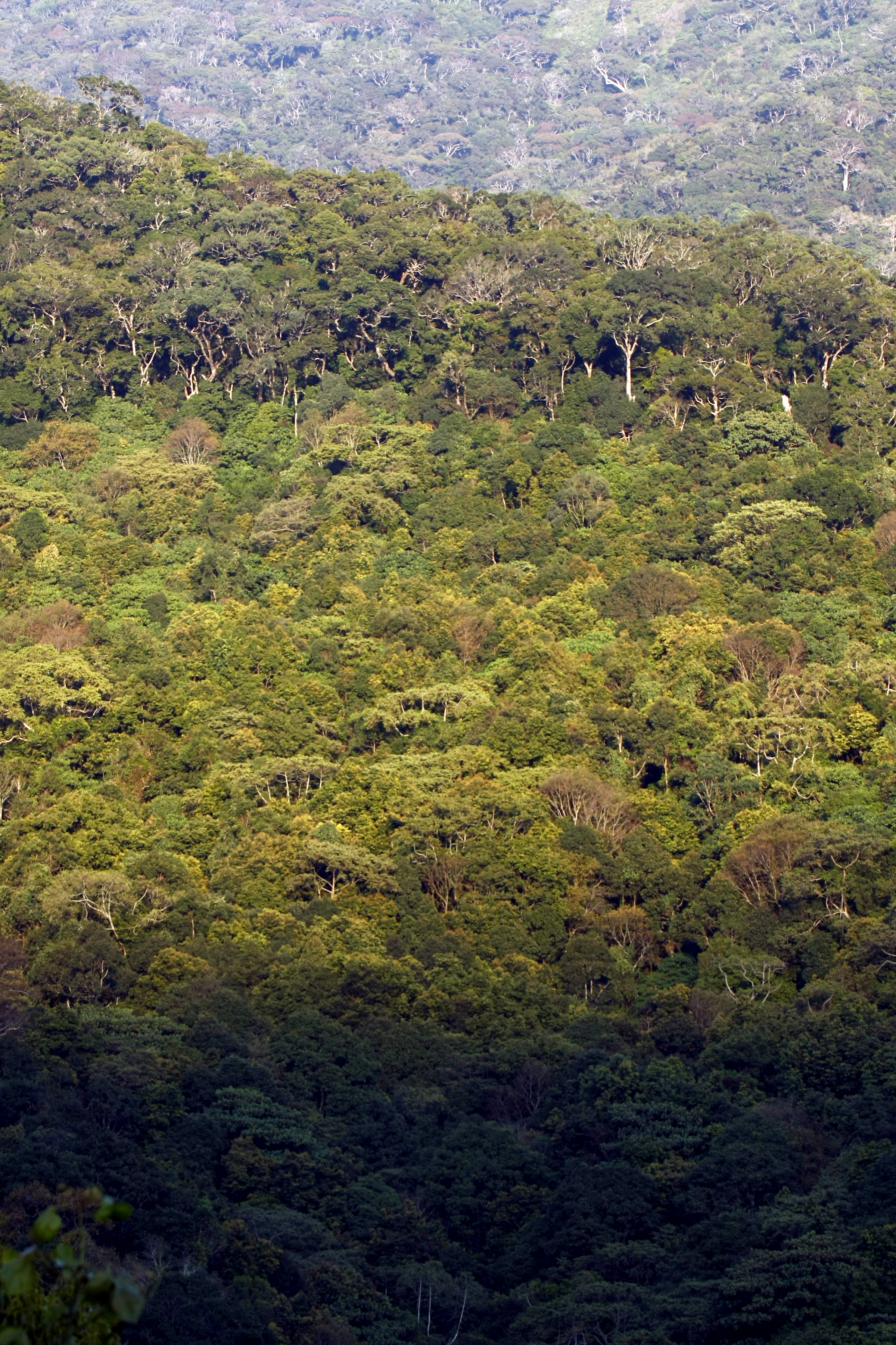 This media file is uploaded with Malayalam loves Wikimedia event - 3.